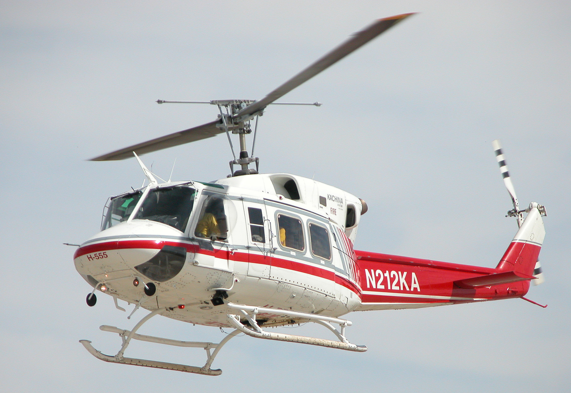 Bell 212HP operated by Kachina for The Bureau of Land Management (Helicopter 555)